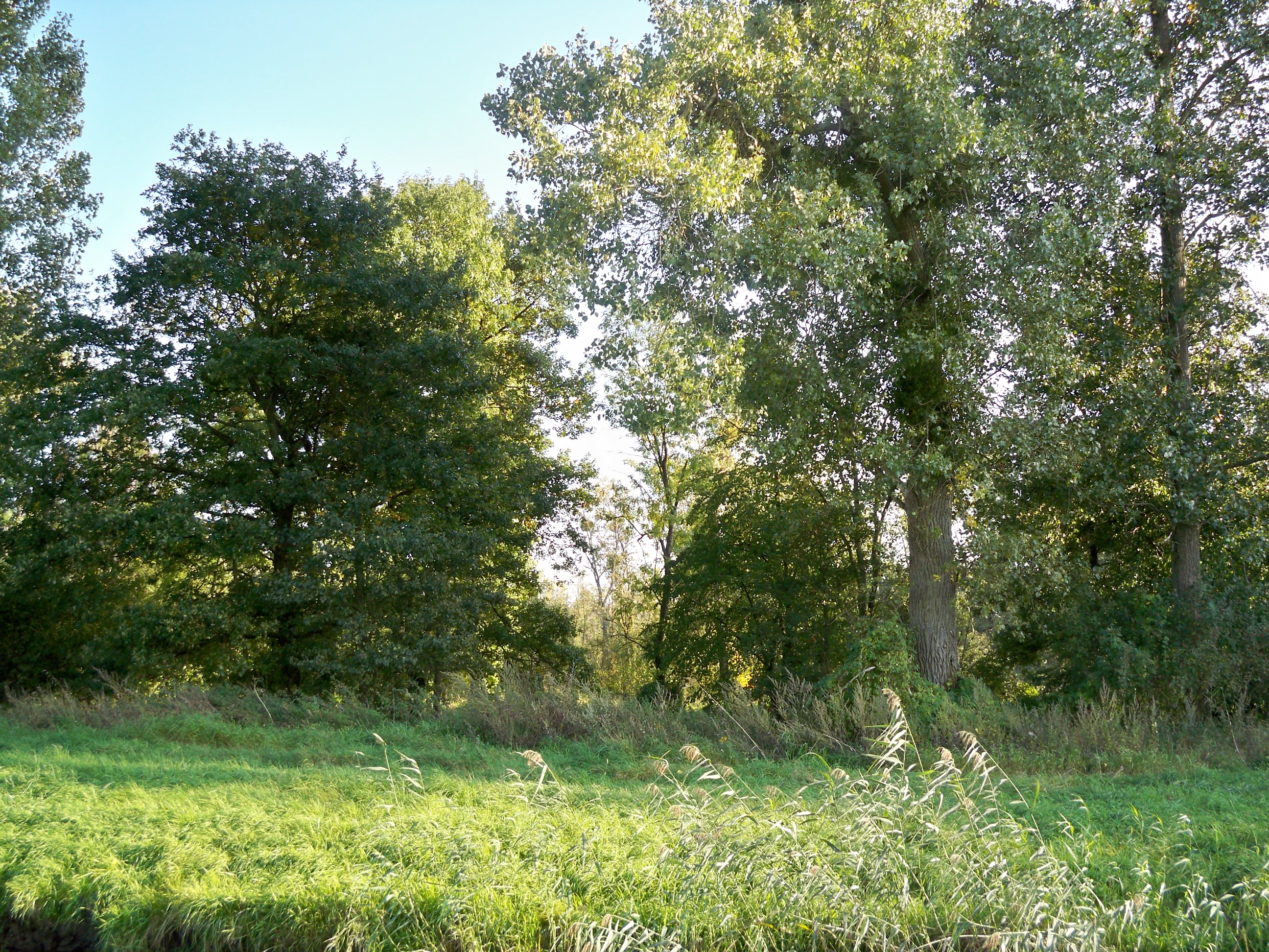 Danndorf, Lower saxony, nature reserve Allerauenwald im Drömling, view across the Aller river